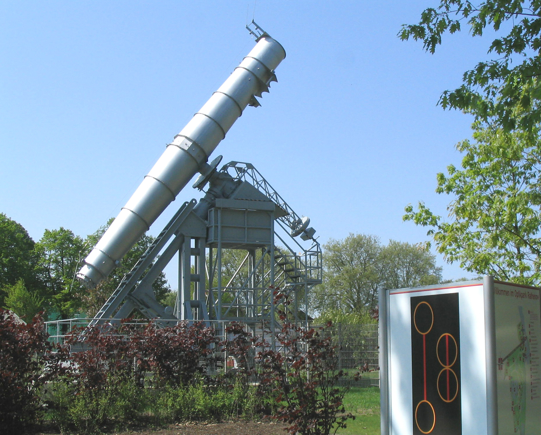 The Rathenow Brachymedial at its new location, the opticparc